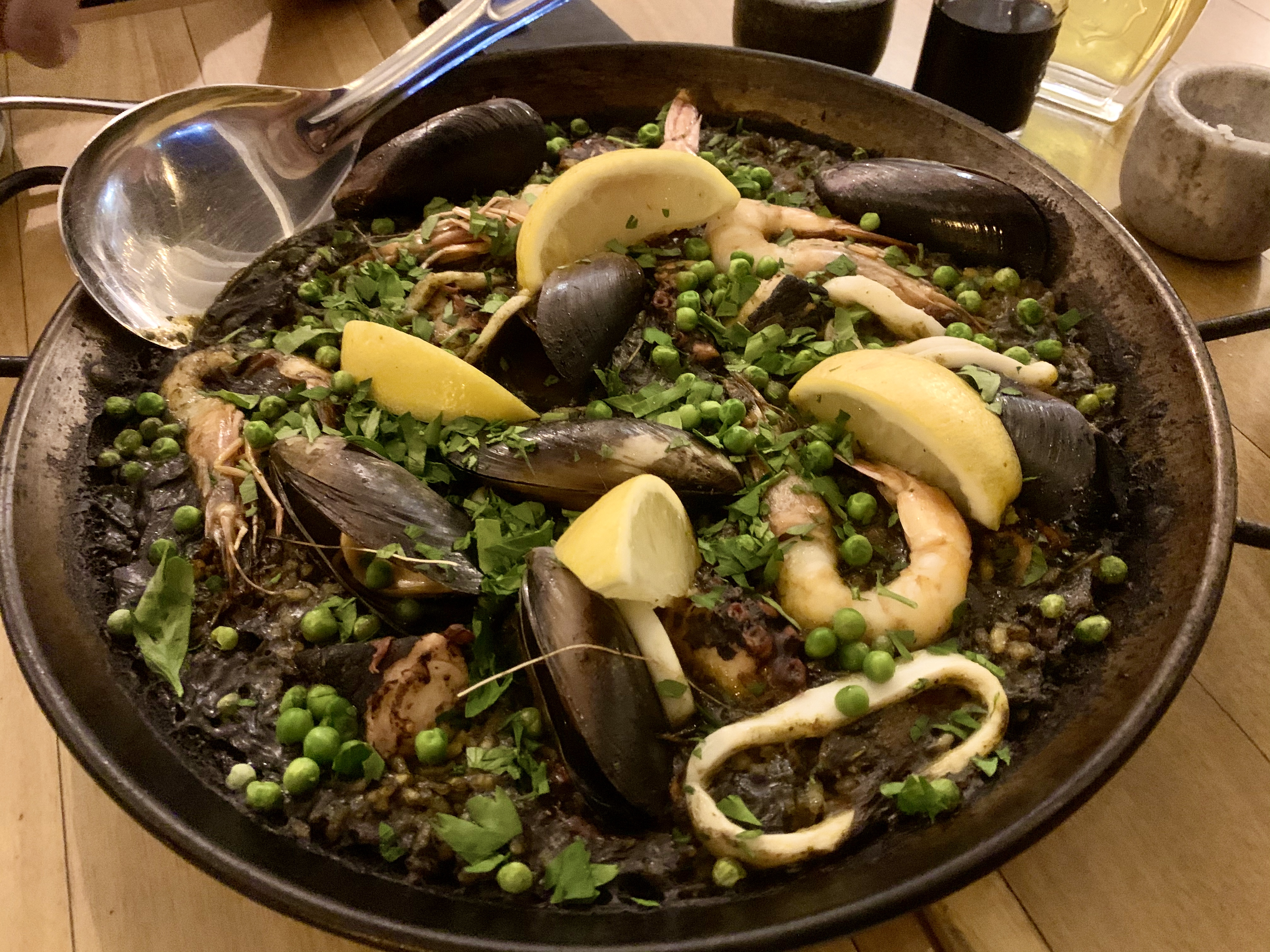 Seafood paella at Botellón Restaurant, Oxley, Queensland